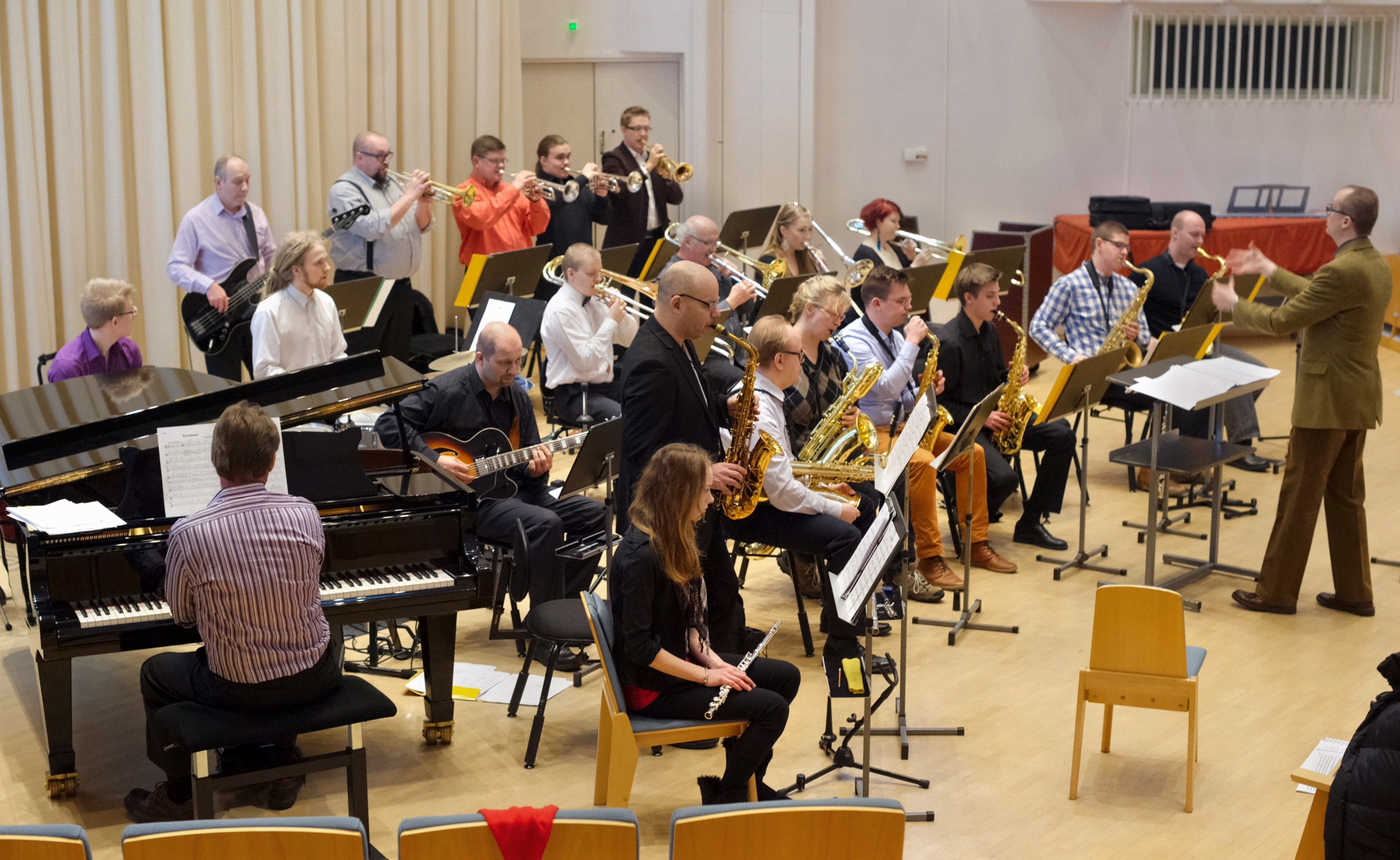 Mikko Mäkinen & The Lappeenranta Big Band 16.2.2014